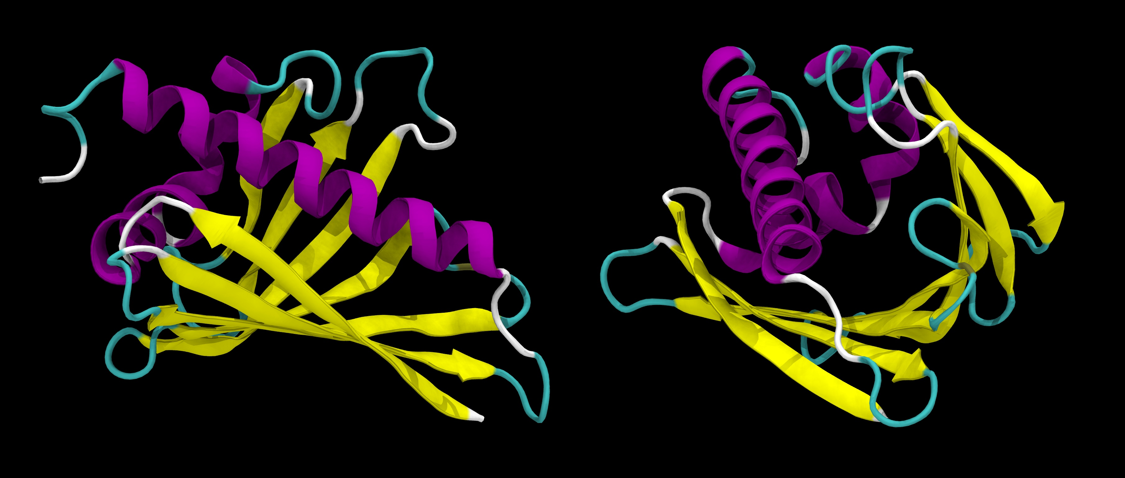 ribbon model of Bet v 1-A from two sides, after PDB 1QMR. Ref.: Holm J, Gajhede M, Ferreras M, et al. (October 2004). "Allergy vaccine engineering: epitope modulation of recombinant Bet v 1 reduces IgE binding but retains protein folding pattern for induction of protective blocking-antibody responses". J. Immunol. 173 (8): 5258–67. PMID 15470071. This 3D molecular image was created with VMD.